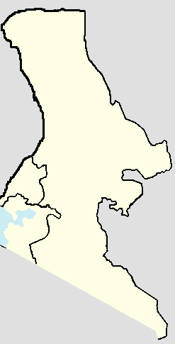 A location map of the Rift Valley and Western provinces of Kenya to spread out the teams from Western Kenya in FKF Division One.